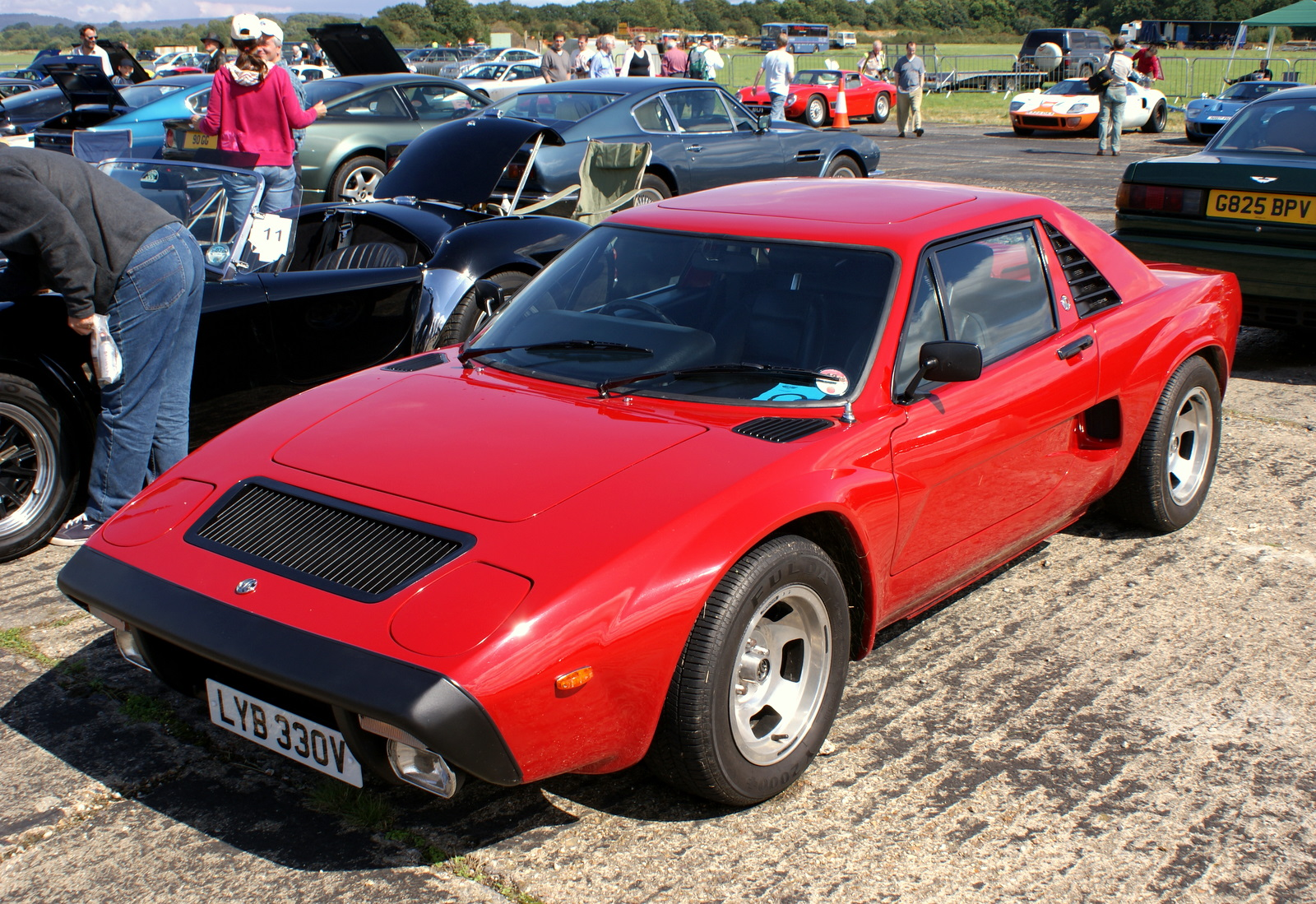 AC 3000ME (Thames Ditton Version, 1979-1984)